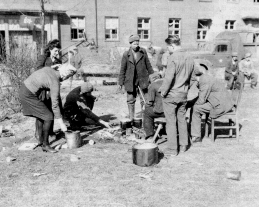 Russian displaced persons preparing a meal in Trier, Rheinland-Pfalz, Germany in 1945. The photo was taken at the former German artillery barracks on the Petrisberg.